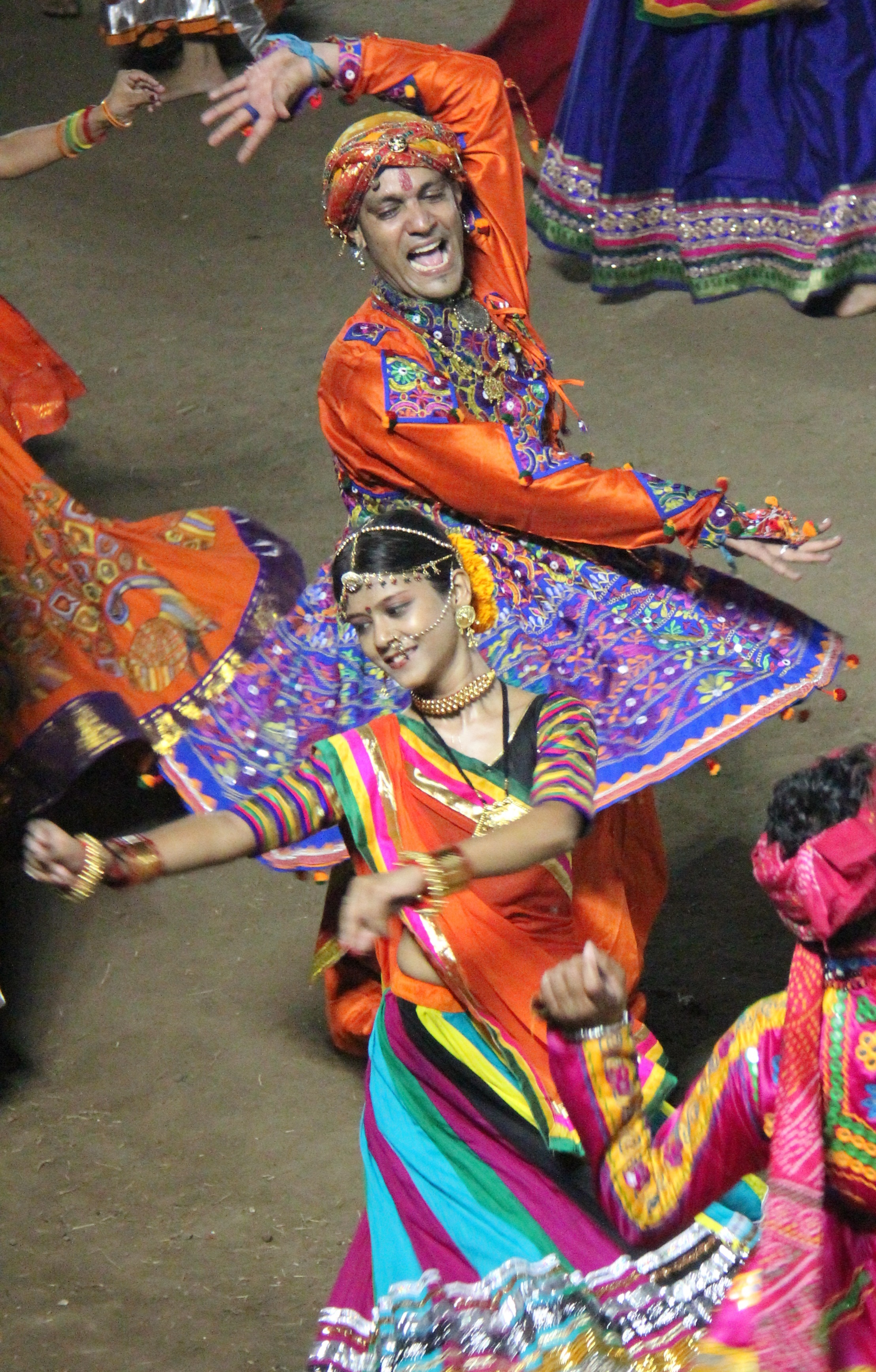 A couple performing Garba (dance) in Vadodara, Gujarat during the festival of Navratri.